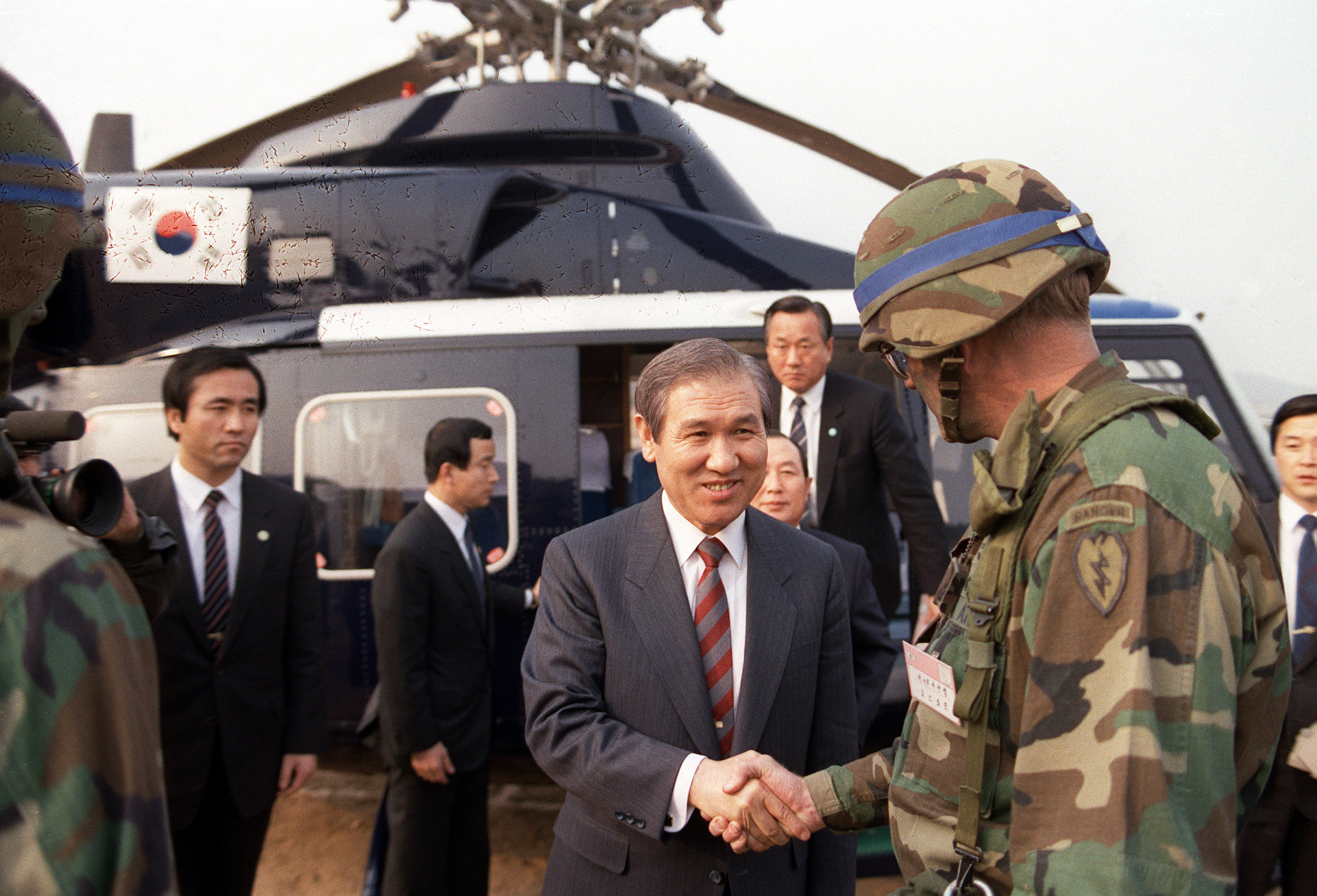 DA-SC-91-01927 South Korean President Roh Tae-woo is greeted by MGEN Charles P. Ostott, Commanding General, 25th Inf. Div. (Light), as he arrives to visit members of 5th Bn., 14th Inf., 25th Inf. Div. (Light), during the joint South Korean/U.S. exercise Team Spirit '89. (SUBSTANDARD)